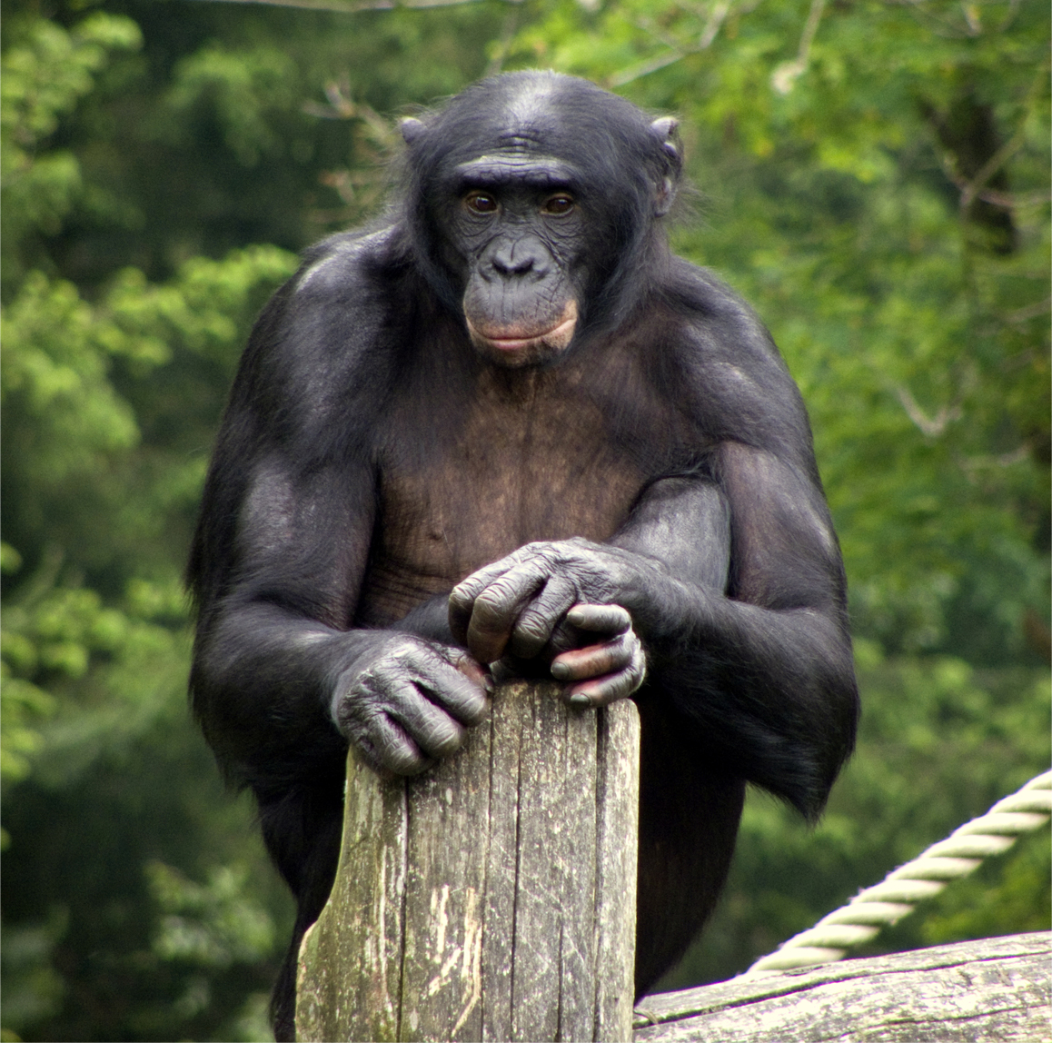 Male Bonobo in Apenheul Primate Park, Apeldoorn, NL